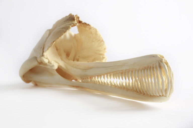 An Indus River dolphin skull cast in the permanent collection of The Children’s Museum of Indianapolis.